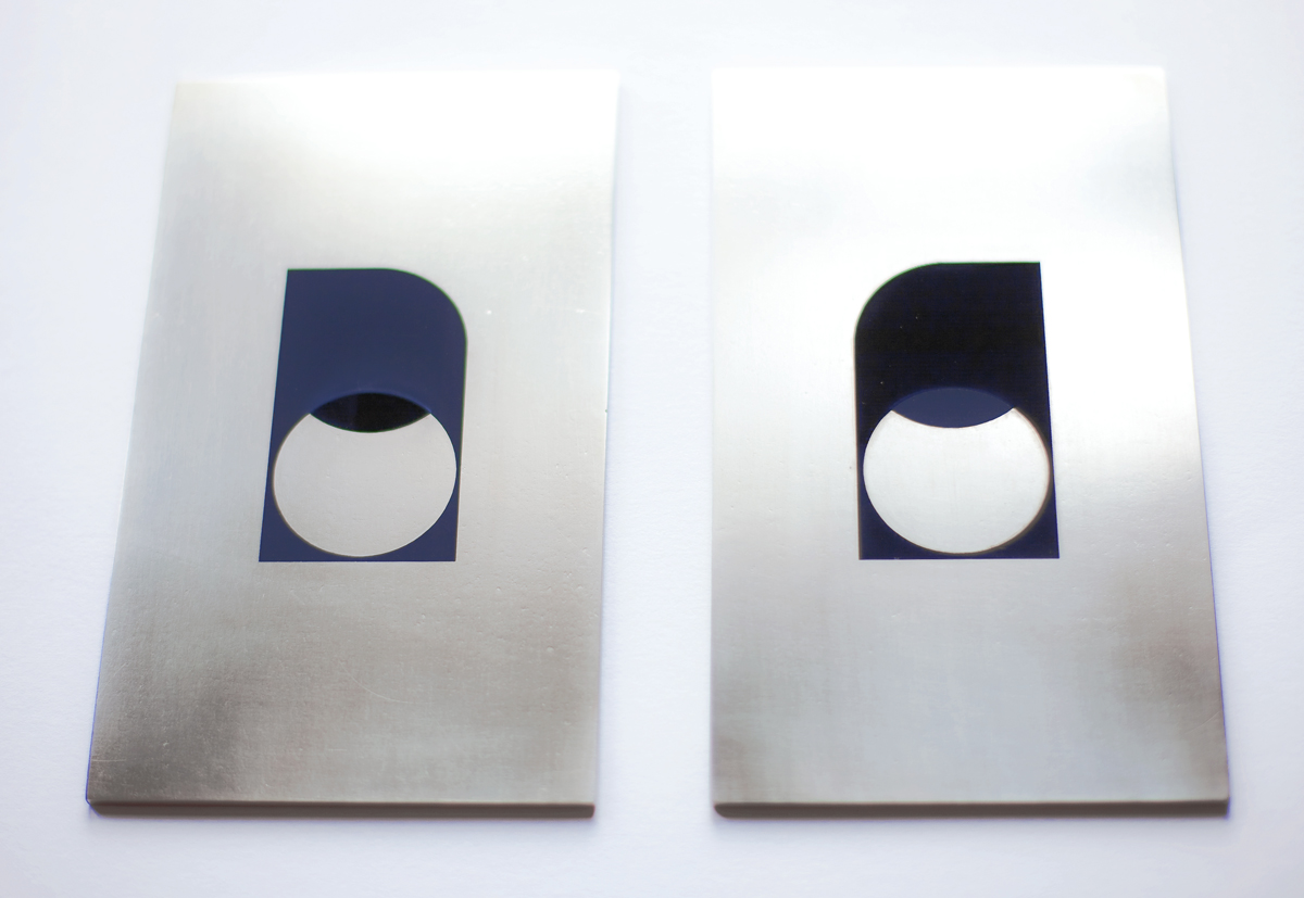 Rubins J. Spaans - first art works ever with angle independent structural colors